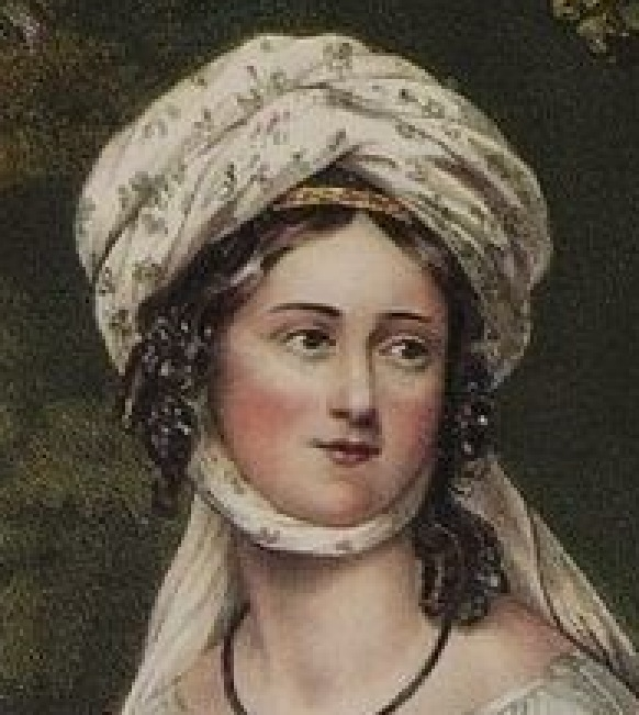 Engraving of Laskarina Bouboulina, heroine of the Greek War of Independence